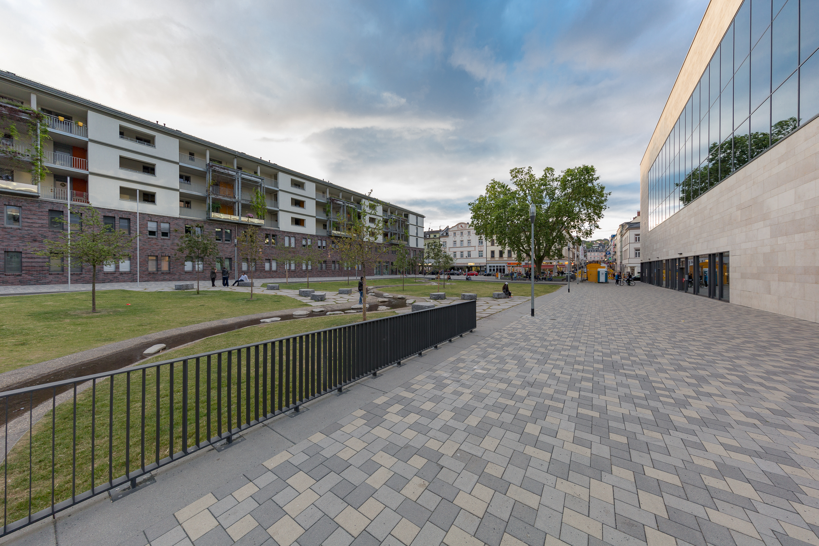 Platz der Deutschen Einheit